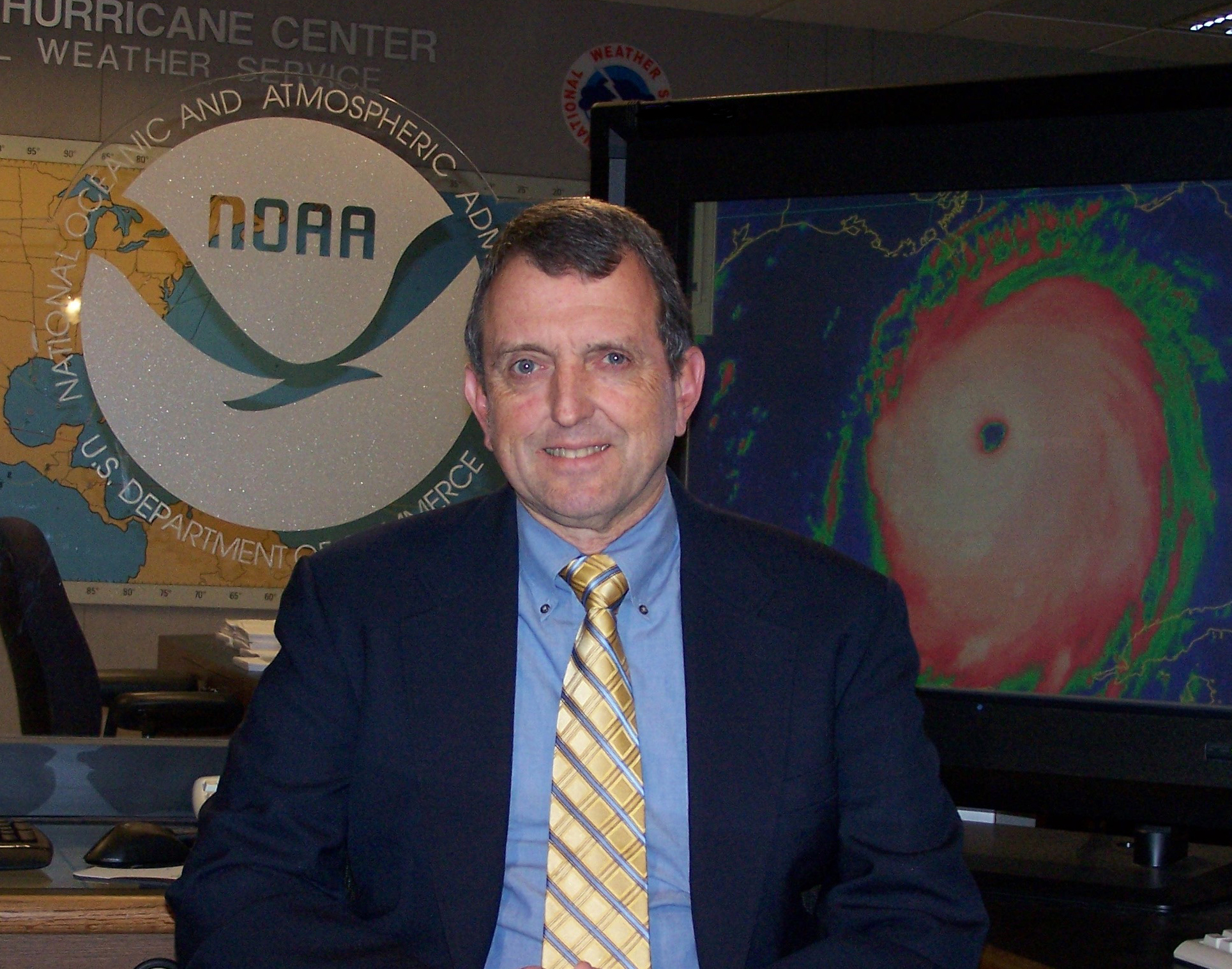 An image of National Hurricane Center director Bill Read.